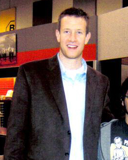 Basketball player Steve Novak during a promotional event in Houston, Texas.